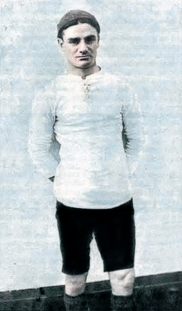 Another antique photo of Vicente Cincotta.